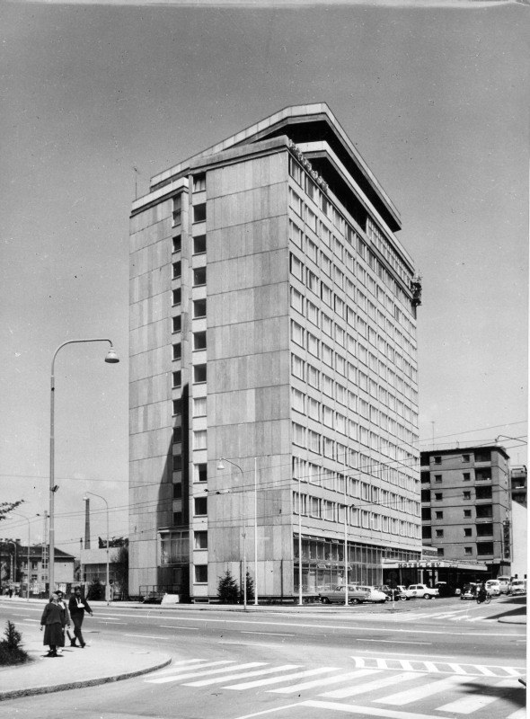 Hotel Lev 1963, Emil Medvešček